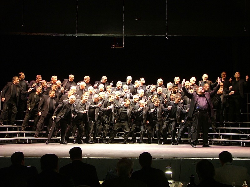 The Texas Millionaires Chorus, competing in the 2006 Fall District contest of the Southwest District, in Corpus Christi, Texas, October 2006. They placed second and earned an invitation to the International contest in Denver, CO.